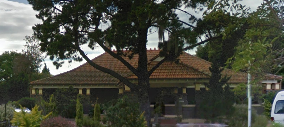 Strathfield Gardens, Strathfield NSW formerly Fairholm